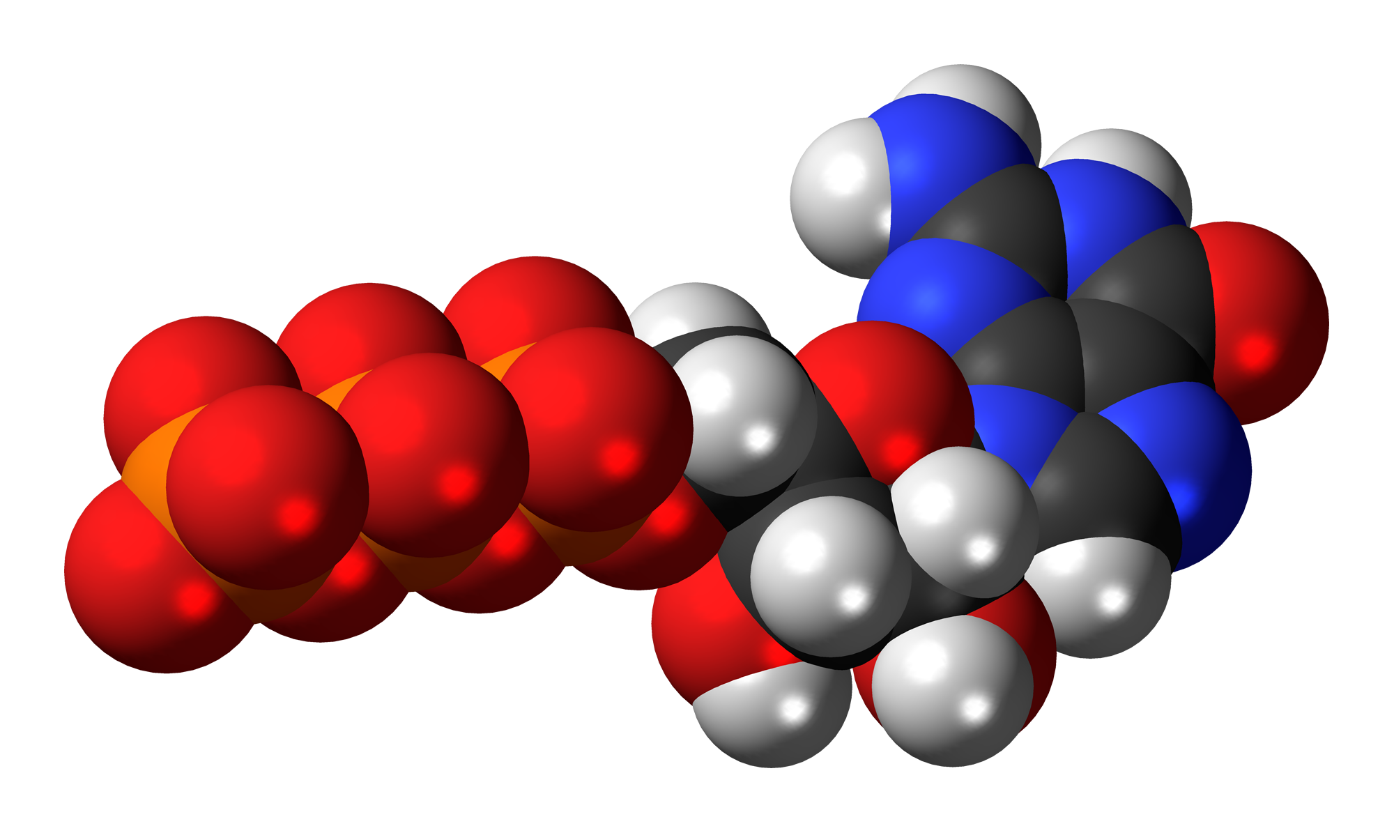 Space-filling model of the guanosine triphosphate molecule, also known as GTP, a nucleotide, used to make the 'G' letter of RNA. This image shows the anionic (negatively charged) form. Colour code: Carbon, C: black Hydrogen, H: white Oxygen, O: red Nitrogen, N: blue Phosphorus, P: orange